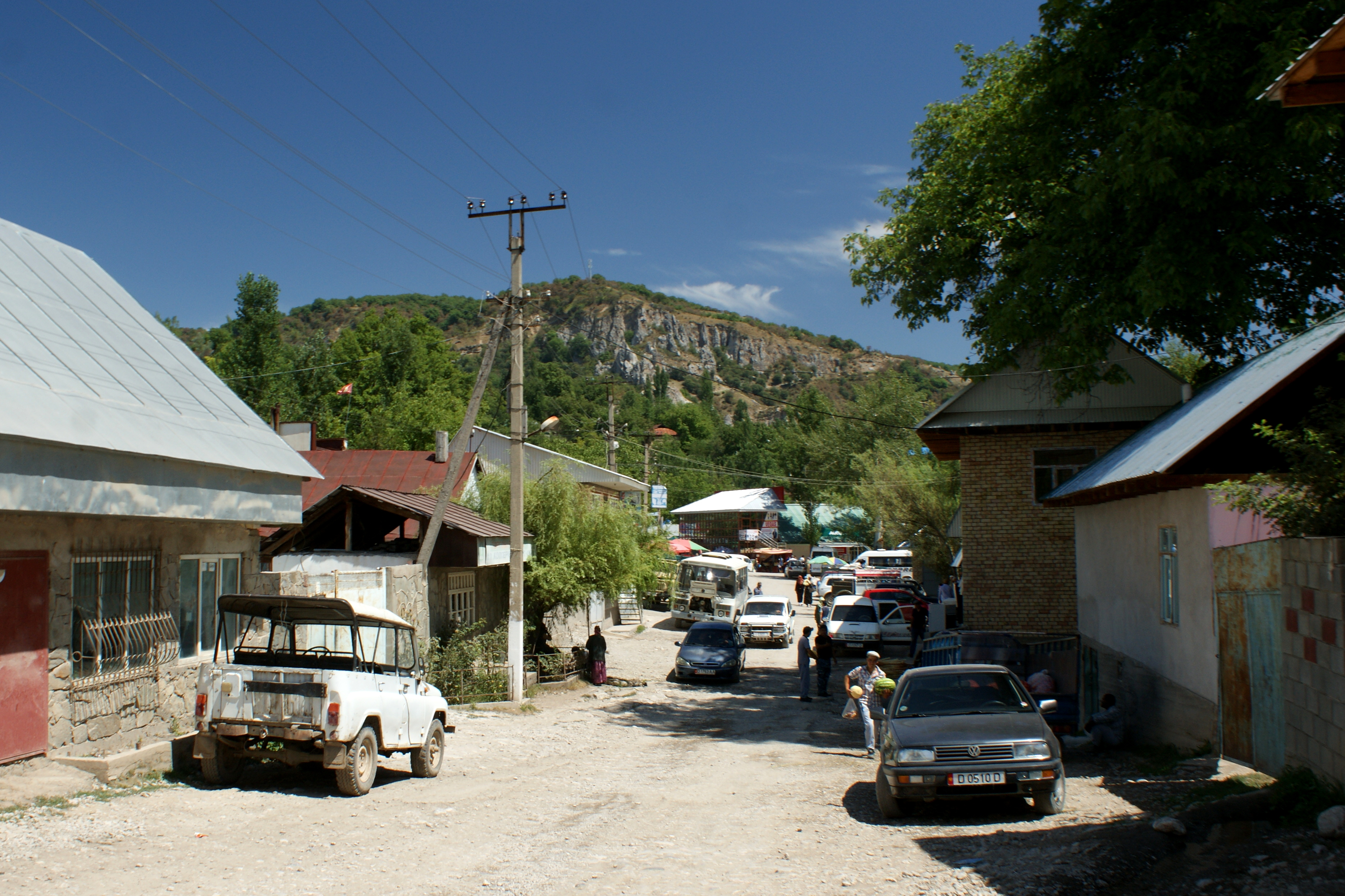 view towards the main market of Arslanbob